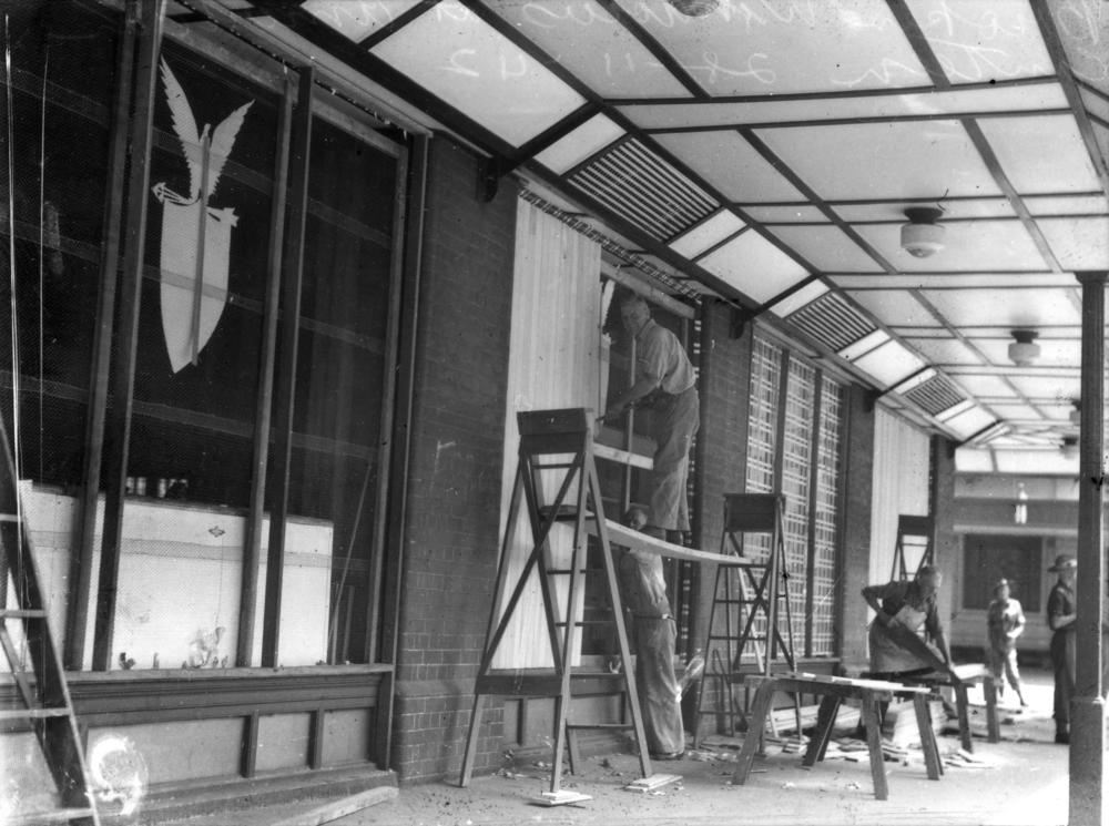 Repairing broken windows at the American canteen, Brisbane, November 1942. The broken glass and damage was the result of what became known as the Battle of Brisbane between Australian and American servicemen and by 8pm on the 27th of November, over 2000 poeptle were involved in the disturbance. There were fights at various Canteens around Brisbane and the ground floor of the American PX was demolished. (Information taken from Ralph, B. They passed this way).